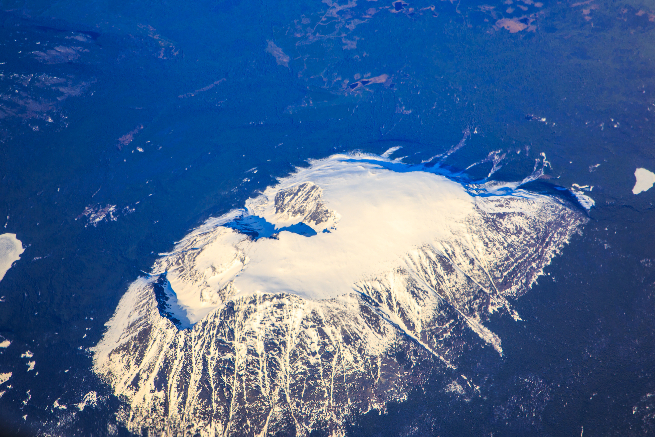 Air North flight from Whithorse to Kelowna...Nadina Mountain Provincial Park